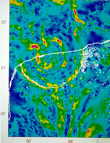 Horizontal gradient map of the Bouguer gravity anomaly over the Chicxulub crater (North is up.). The coastline is shown as a white line. A striking series of concentric features reveals the location of the crater.